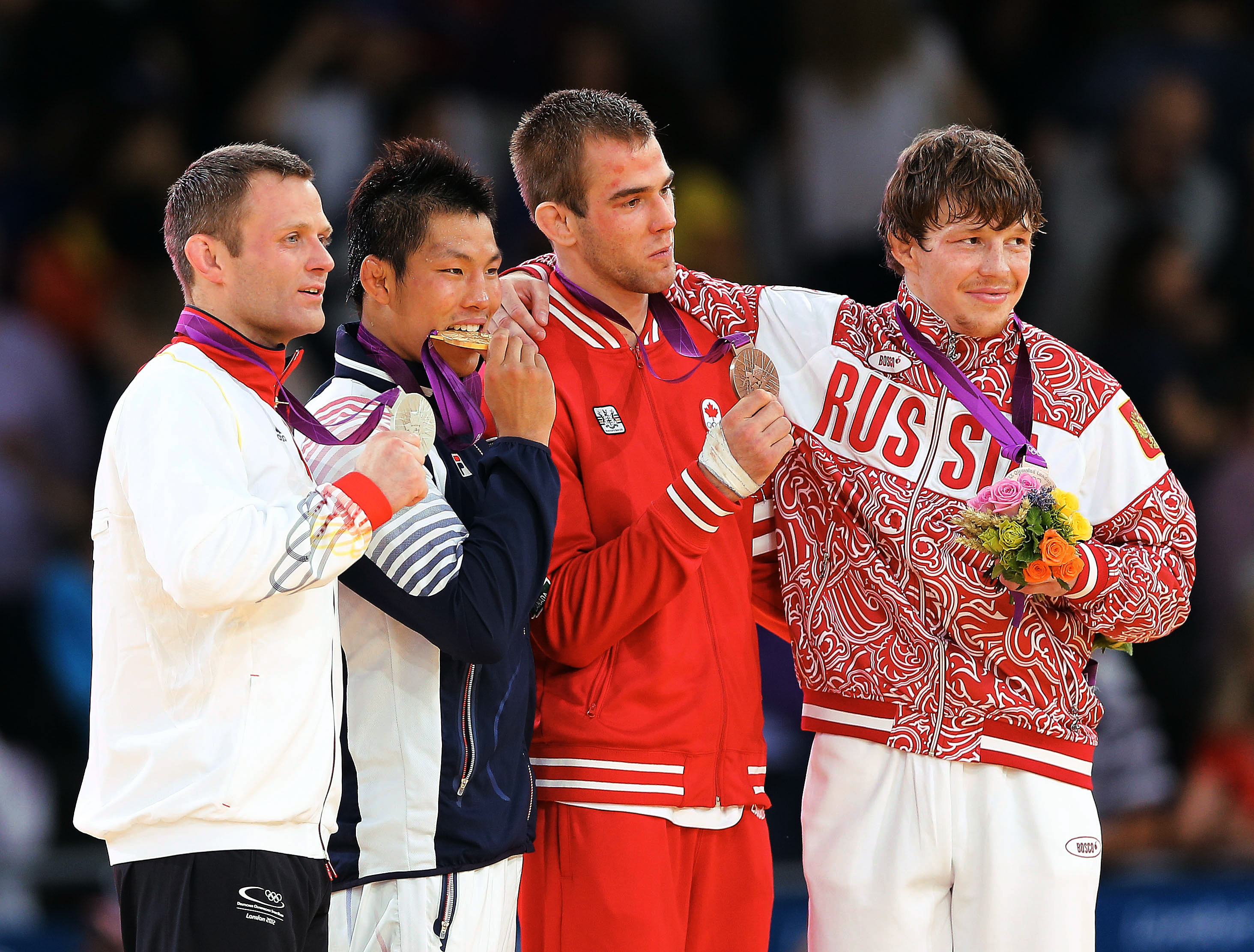 2012 London Olympic Games. Korea Judo, Kim Jae-bum won the gold medal -81kg match